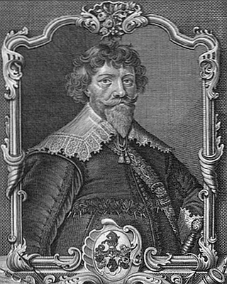 Danish Rigsadmiral Jørgen Vind (1593-1644)